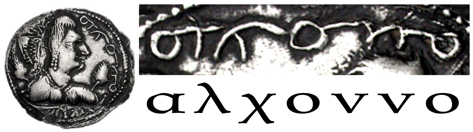 Alchono legend with coin